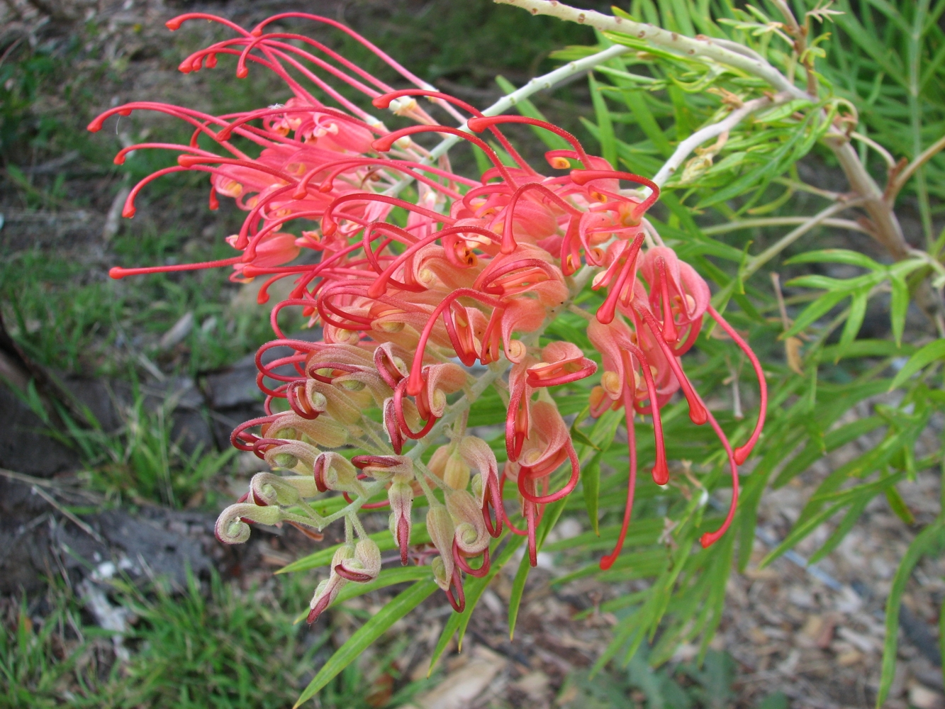 Grevillea 'Ned Kelly' (aka 'Mason's Hybrid'), Mornington Peninsula, Victoria, Australia